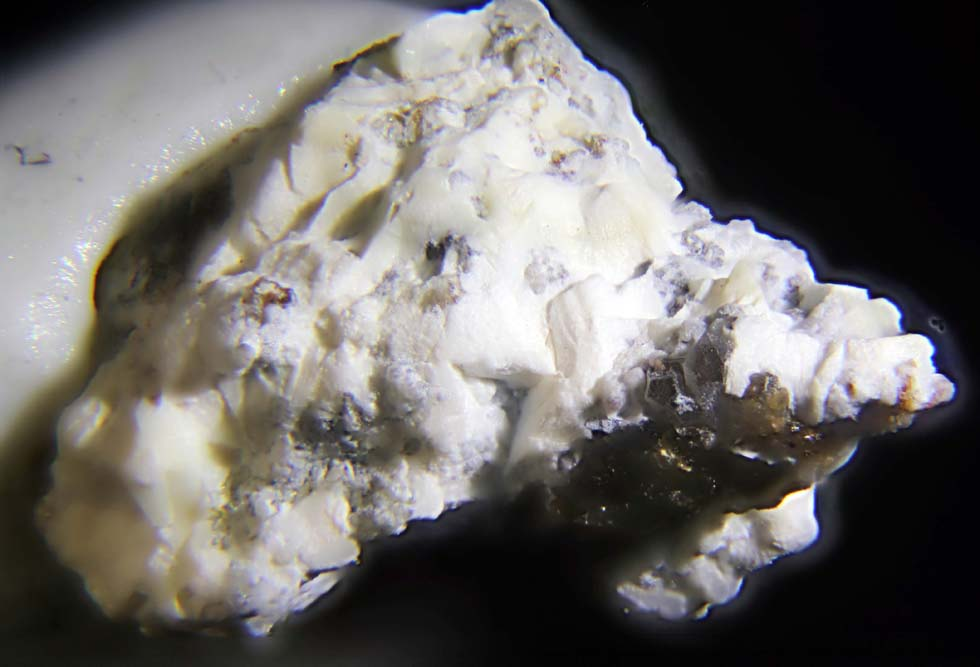 One white crystal group of the rare mineral queitite from the famous Tombstone (Arizona, United States of America). Quietite has only been found in a few localities worldwide.